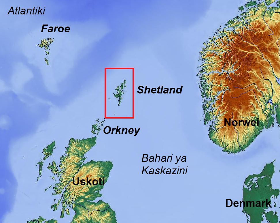 Location of Shetlands and surroundings, sw-labeled Kiswahili: Mahali pa Shetland pamoja na nchi jirani